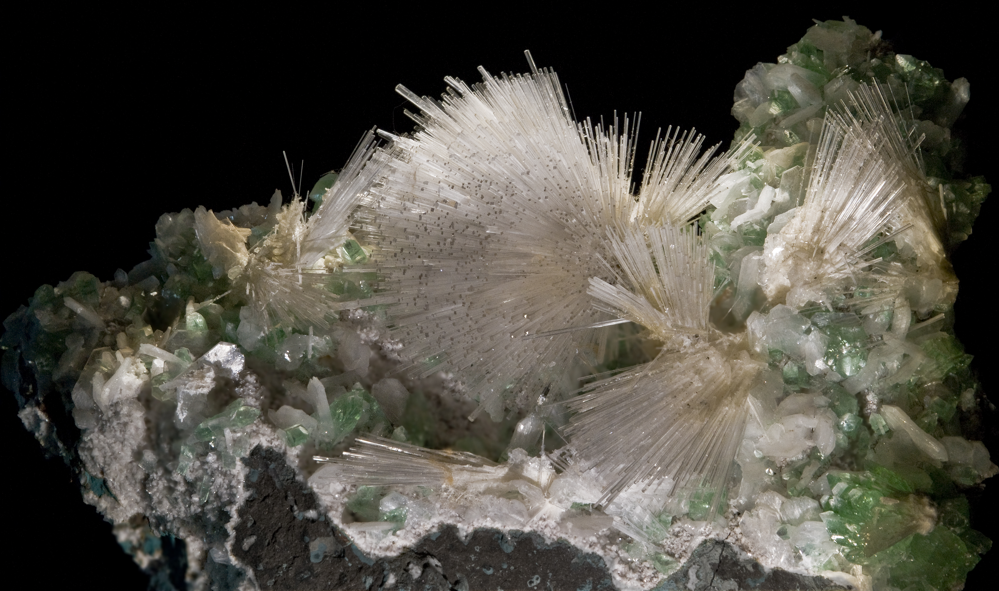 Natrolite (White) with Fluorapophyllite-(K) (Green) - Nasik District, Maharashtra, India (24x14cm)